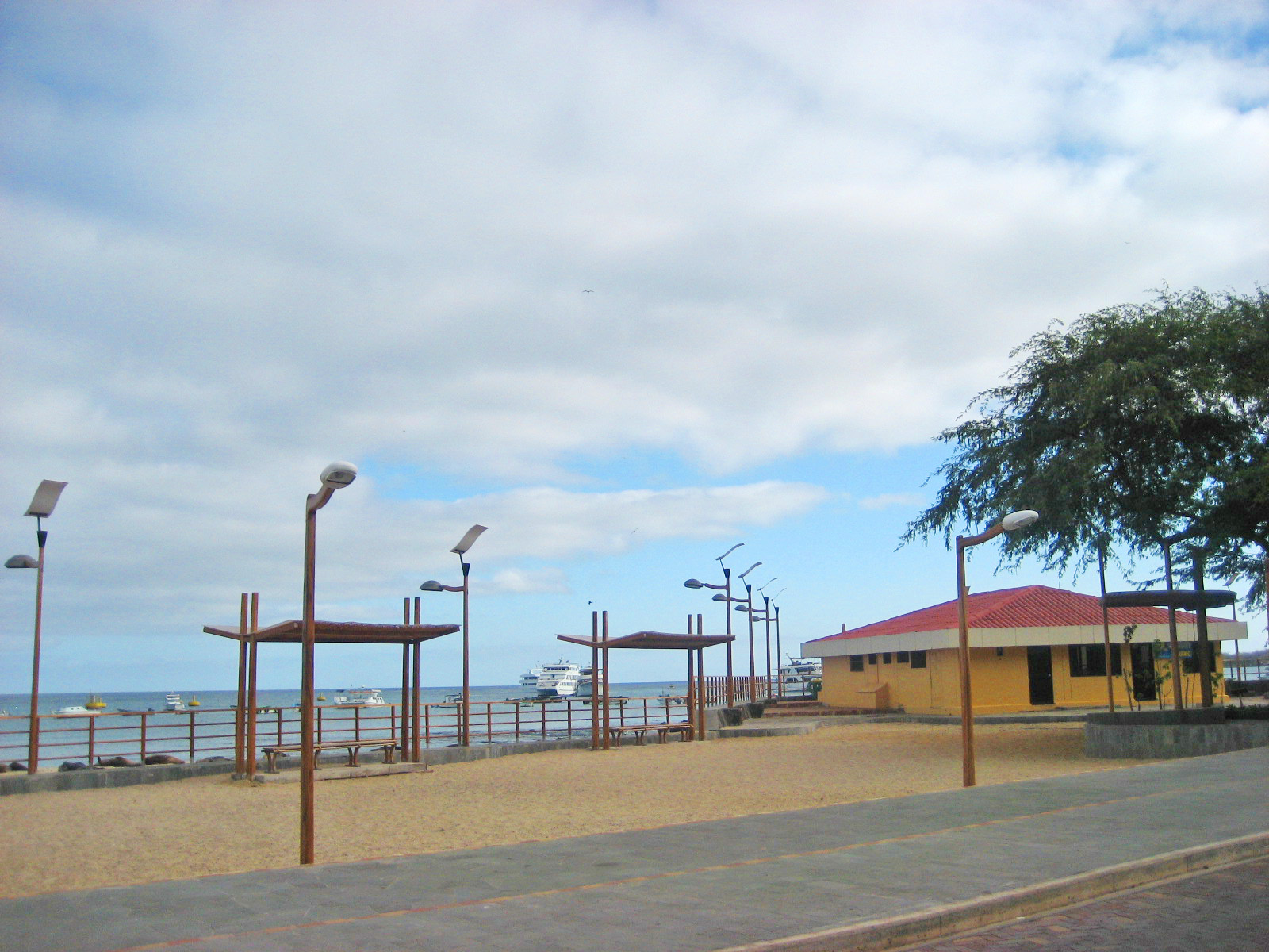 VIew of San Cristoban.